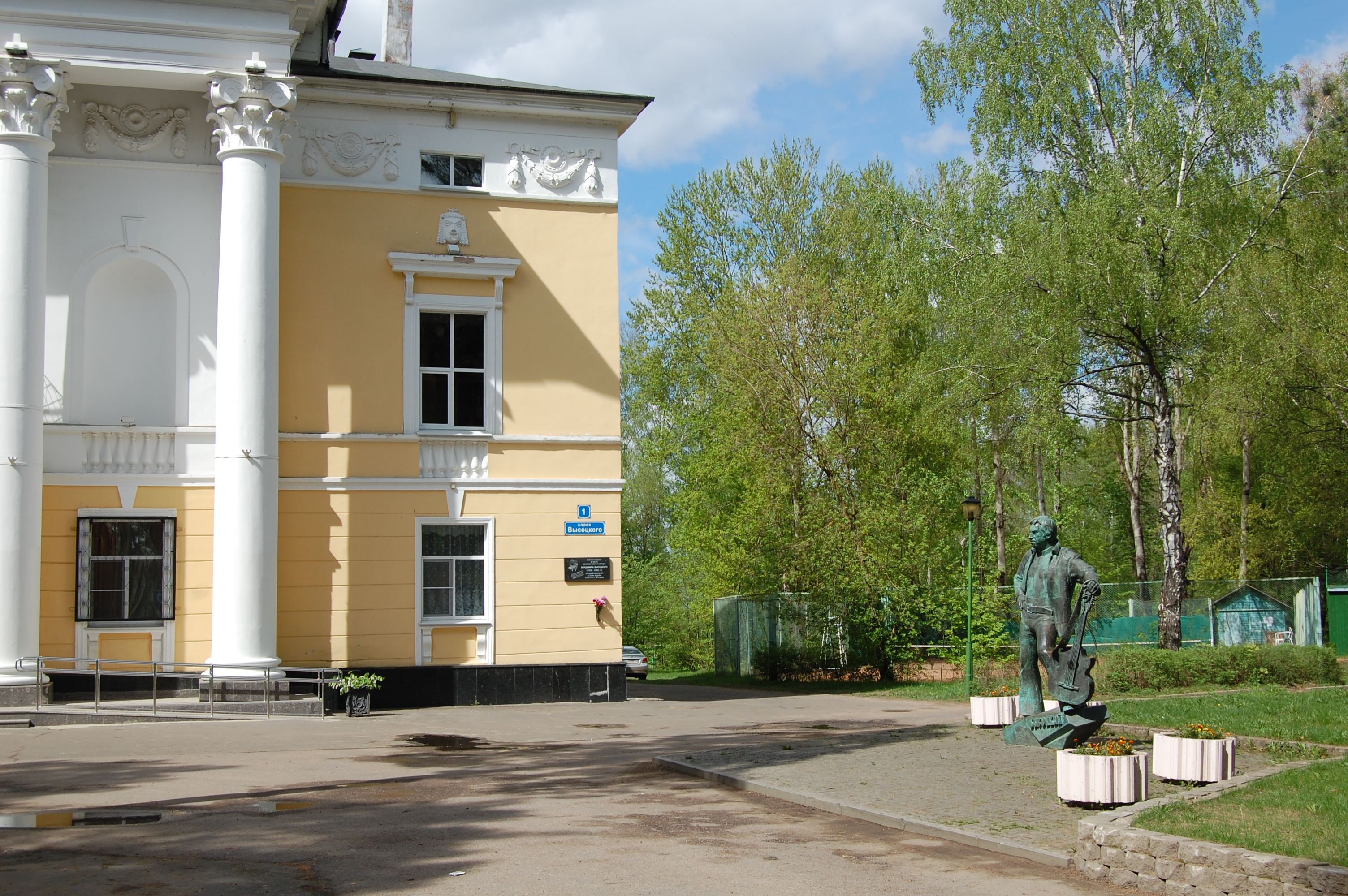 The House of Culture in Dubna, Moscow oblast